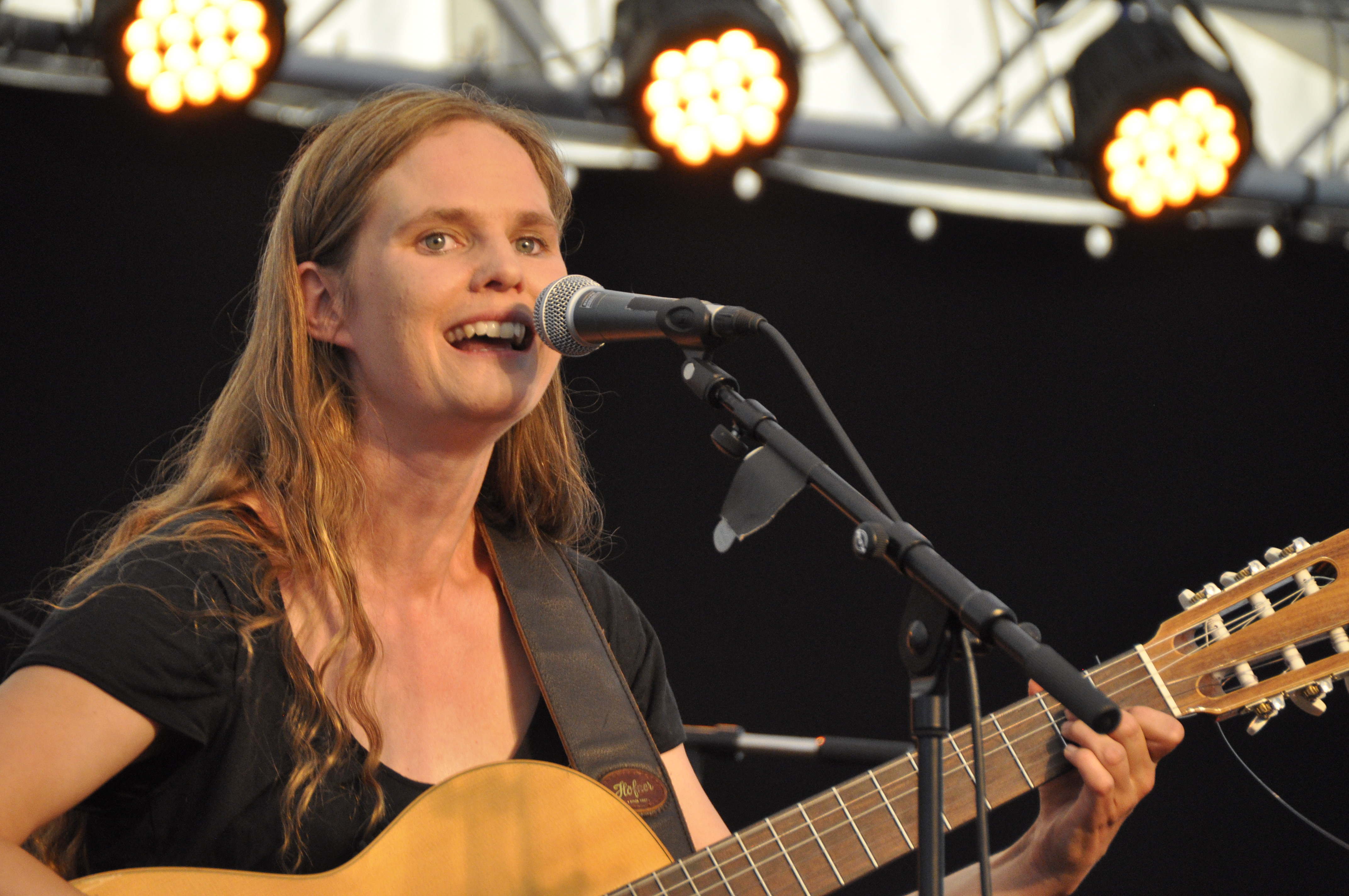 Songfestival 2014 Burg Waldeck, Germany, appearance: Dota (Dota Kehr and band)